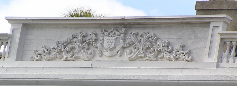 Edmondston-Alston House in Charleston (S.C.)